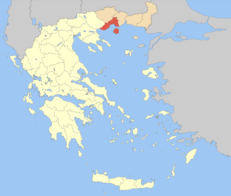 Locator map of Kavala prefecture (Νομός Καβάλας) in Greece